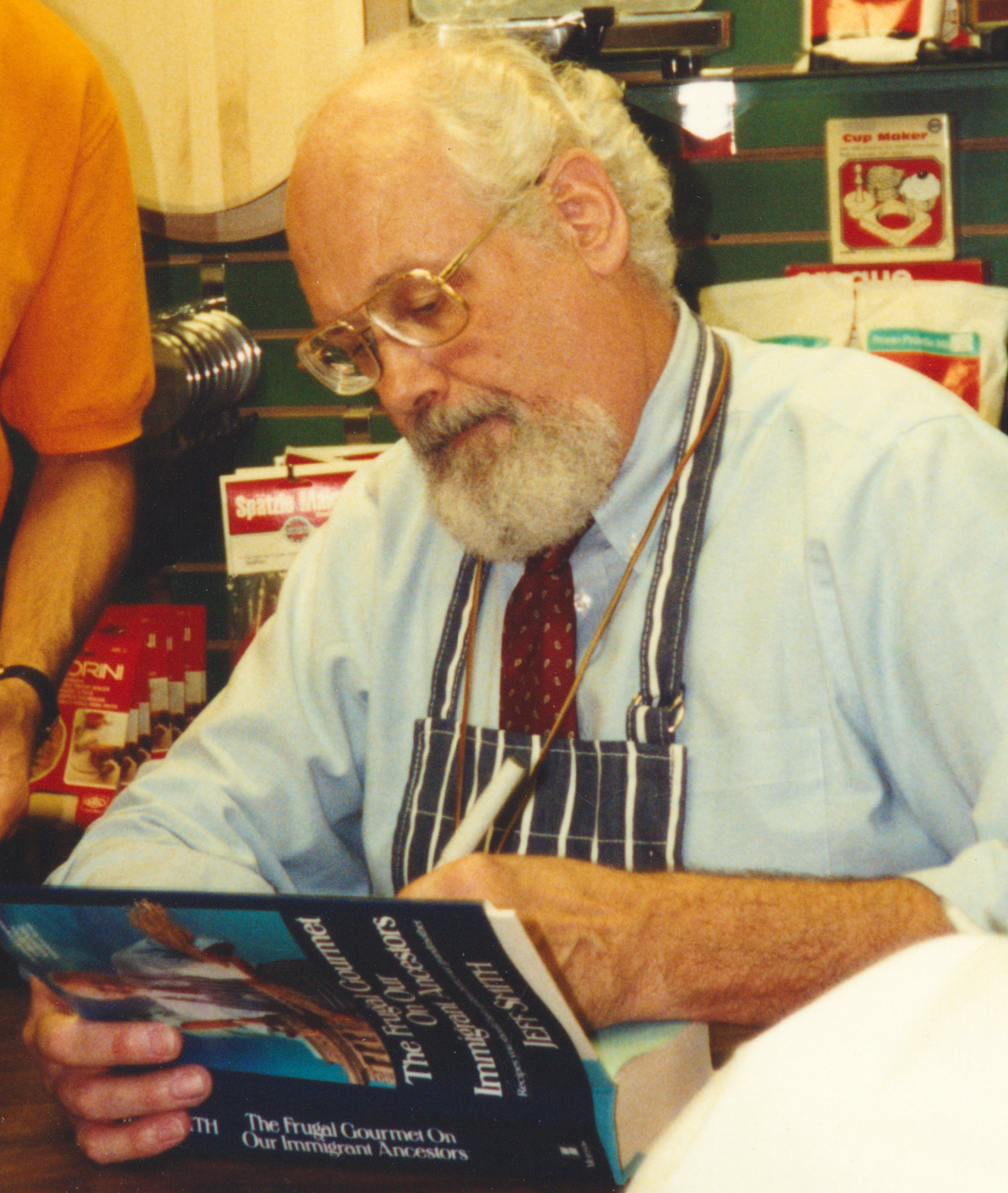 Jeff Smith, The Frugal Gourmet, at Fante's Kitchen Shop (1990)